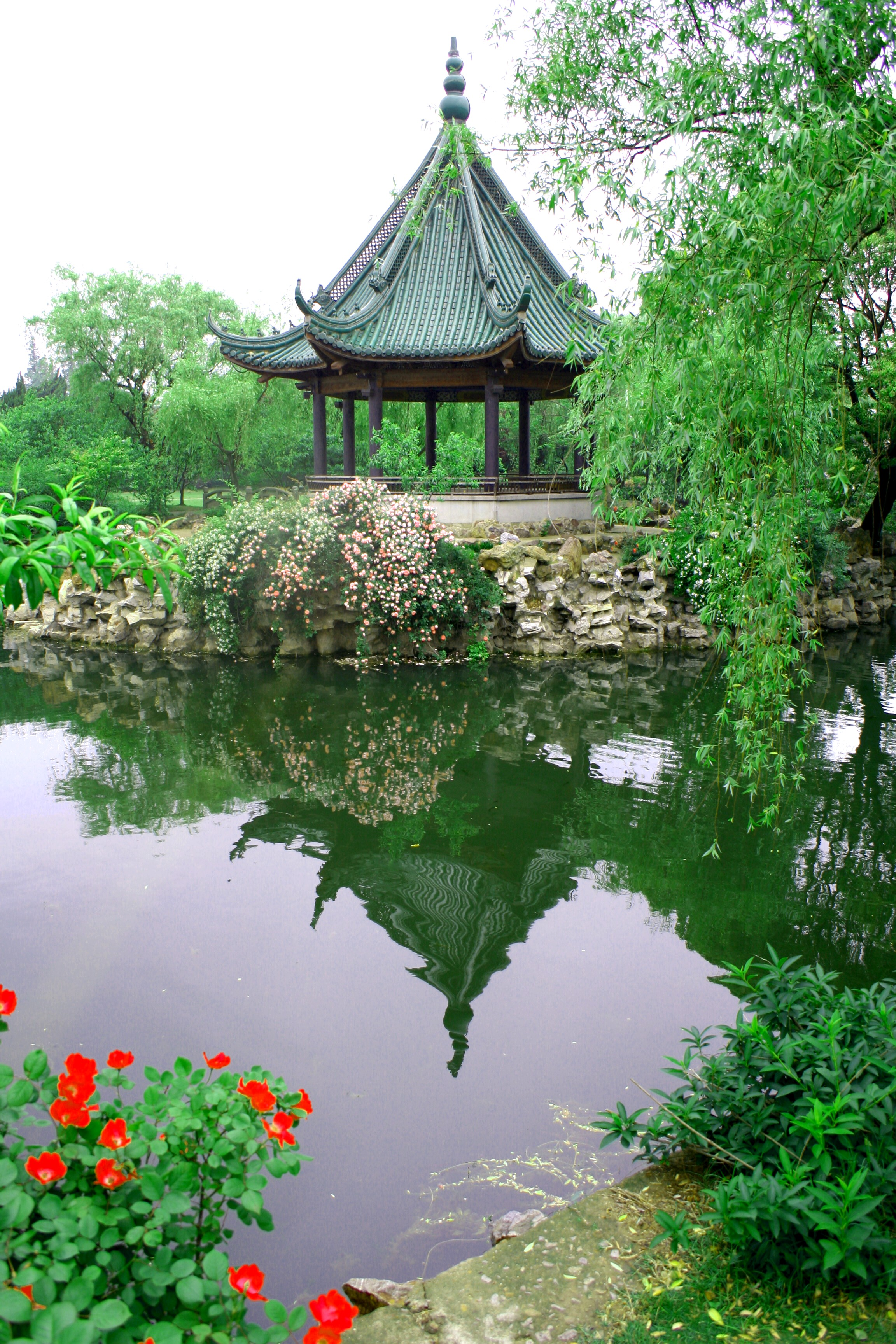 Wuxi Personal photo released into public domain.